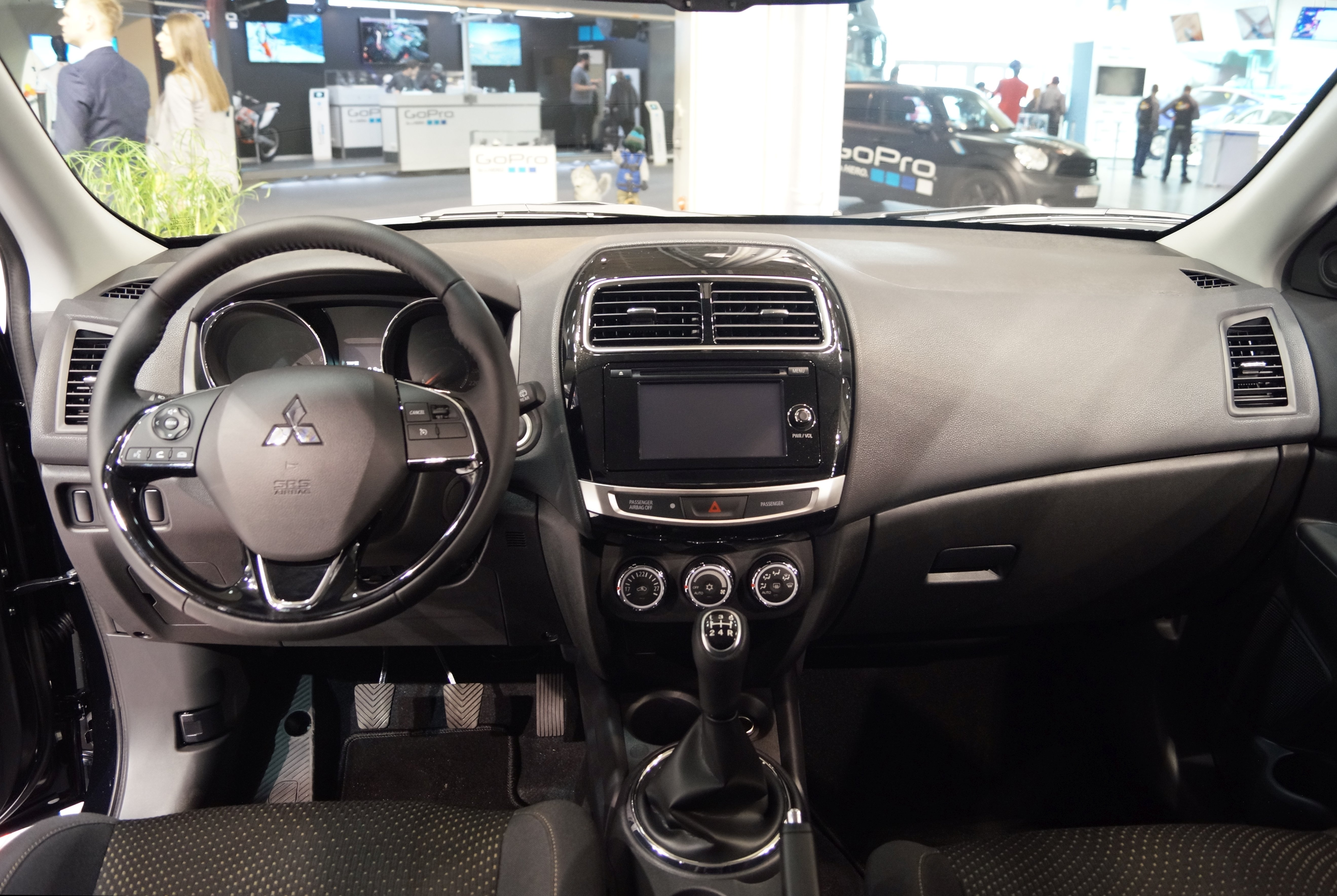 The making of this document was supported by Wikimedia Polska Association, within Wikigrant no. WG 2016-10. English | polski | +/− Wnętrze Mitsubishi ASX na Motor Show Poznań 2016